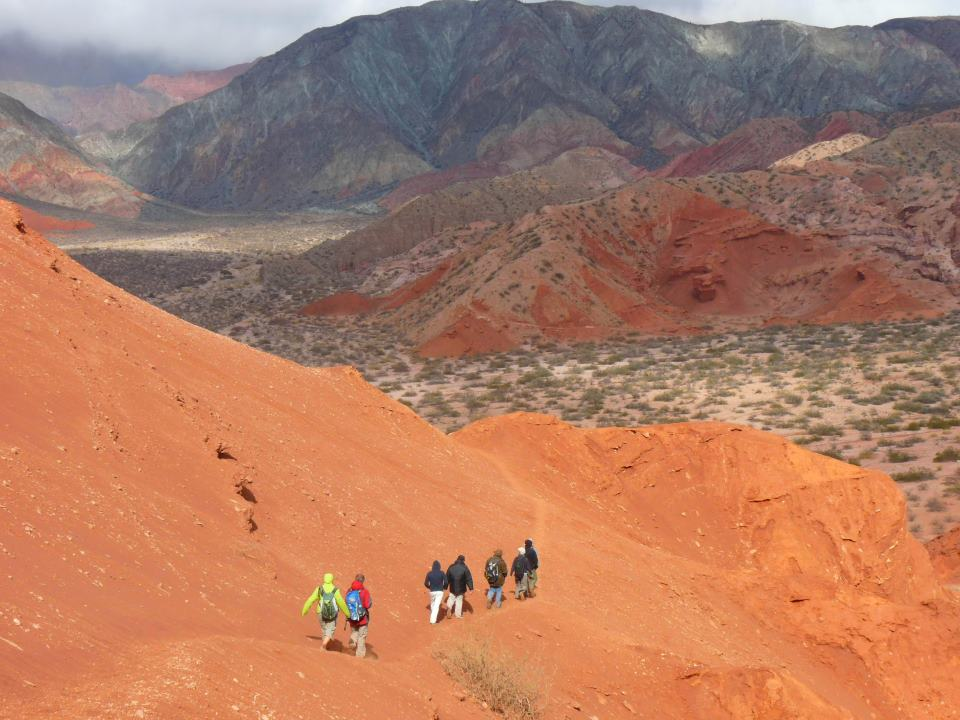 Please, have this description accessible to all by translating it in different languages.